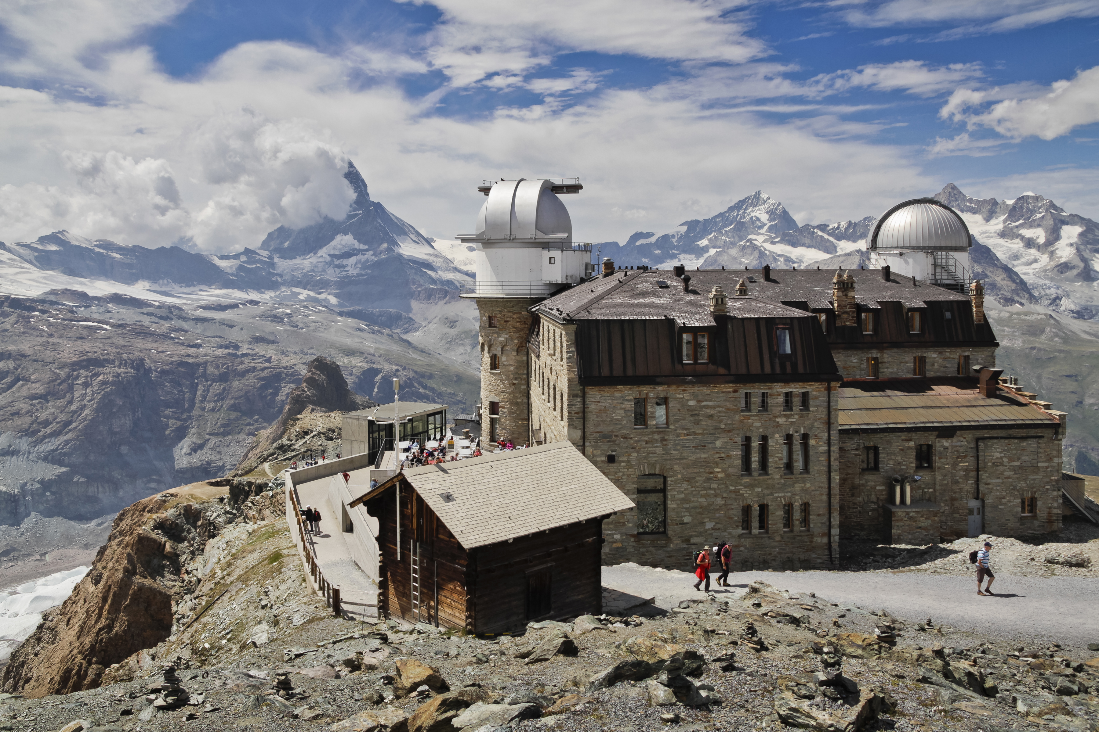 Gornergrat Kulm Hotel and observatory in Gornergrat in Wallis, Switzerland in 2012 August.